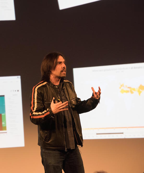 Cesar Hidalgo presenting Pantheon at The MIT Media Lab